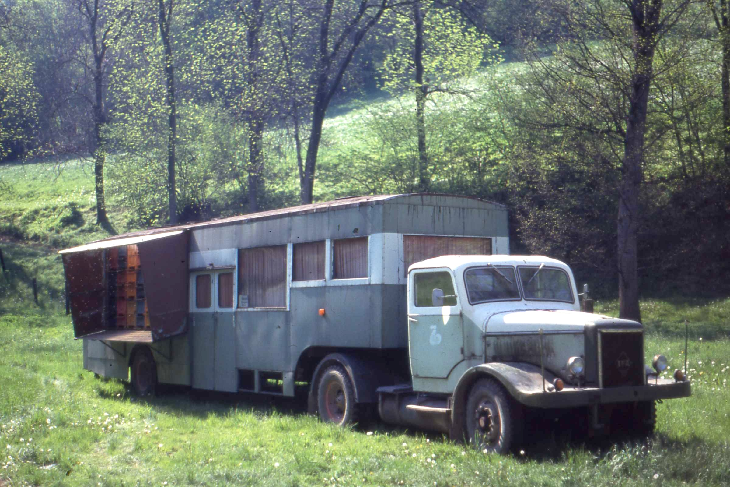 Crossley PT42 truck and DAF-trailer